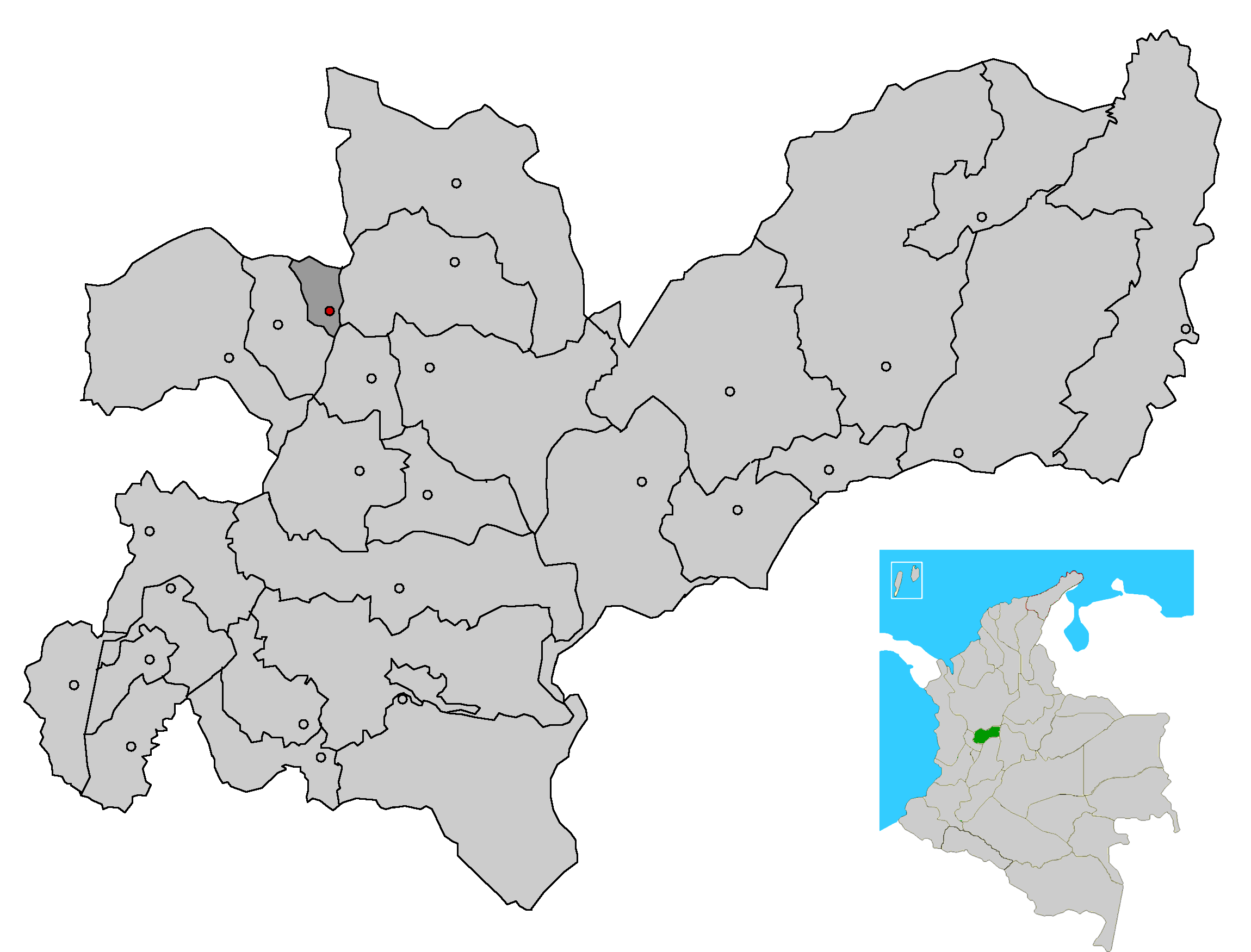 Image depicting map location of the town and municipality of Marmato in Caldas Department, Colombia